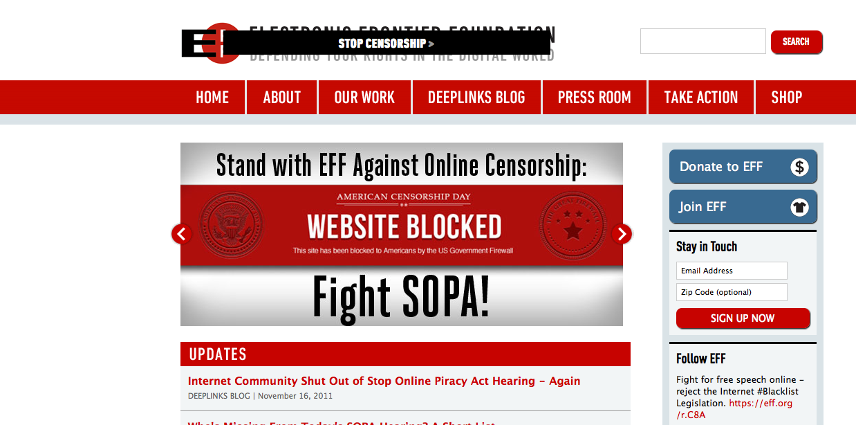 Website of the Electronic Frontier Foundation during American Censorship Day.